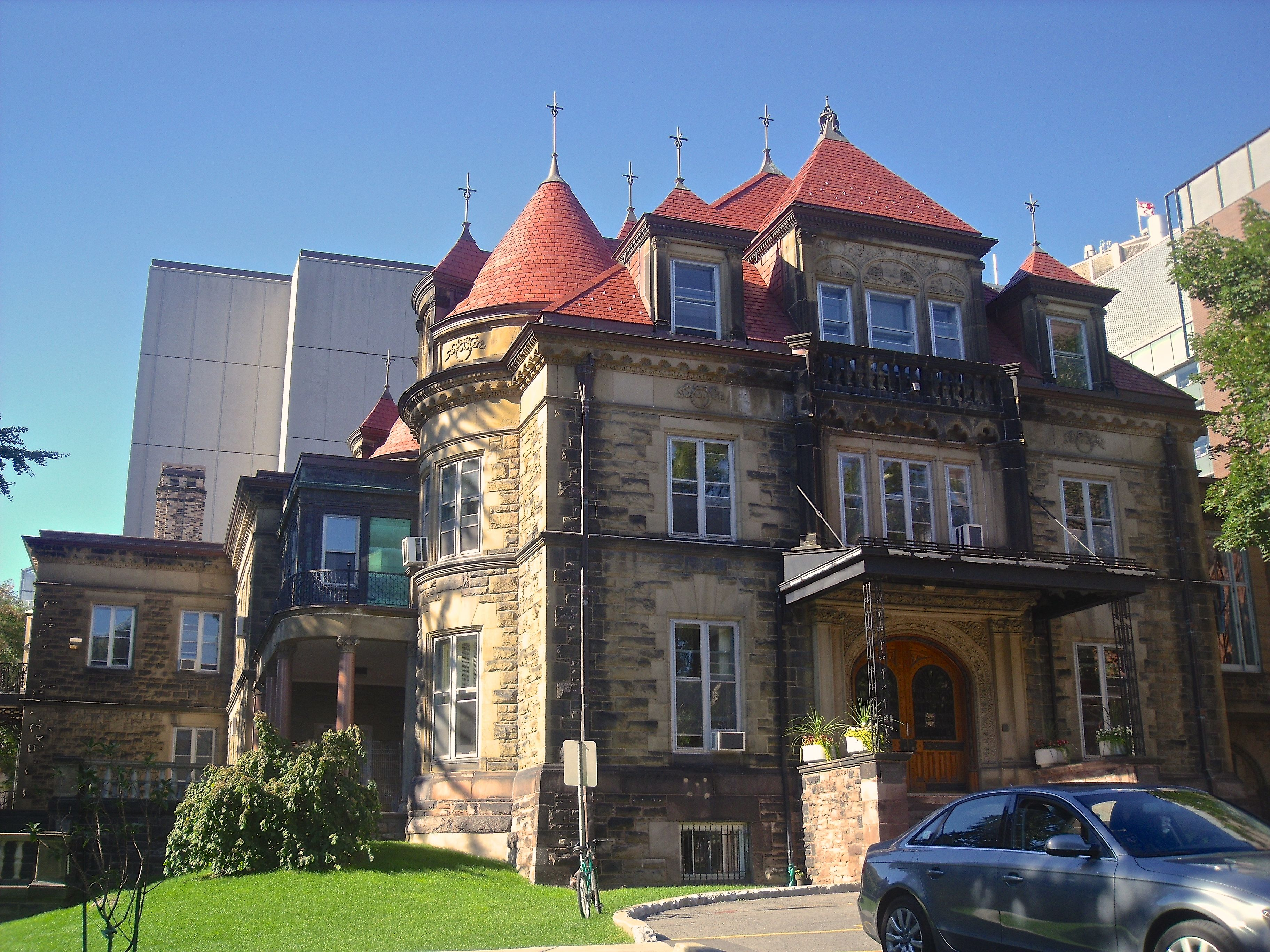 James Ross House (1892), 3644 Peel Street, Montreal, Quebec, Canada.